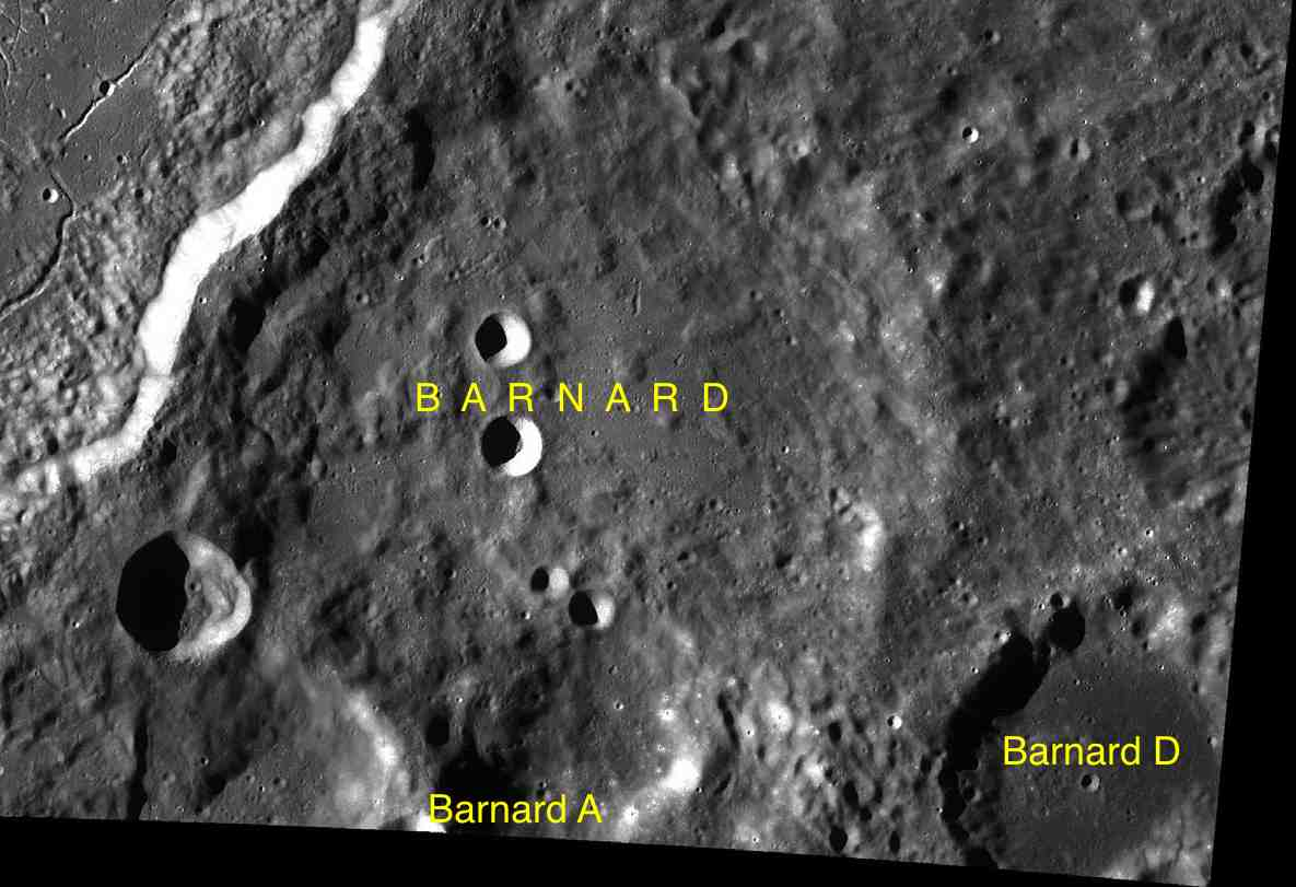 Part of the chart LAC-99 used for the presentation